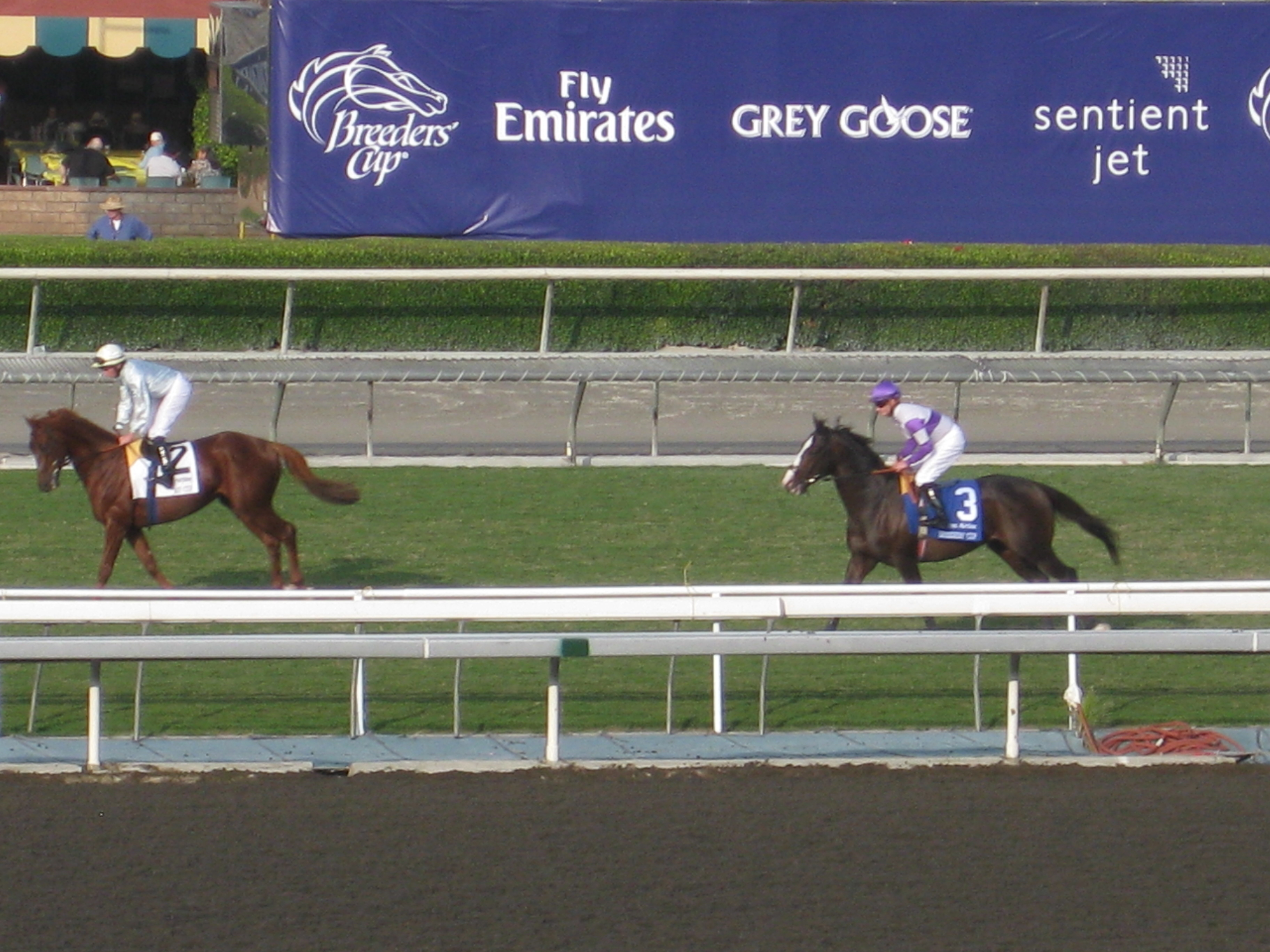 Conduit (#2) and Red Rocks (#3) before the 2009 Breeders' Cup Turf, which Conduit would win Effortlessly uploaded by Eye-Fi Breeders' Cup 2009